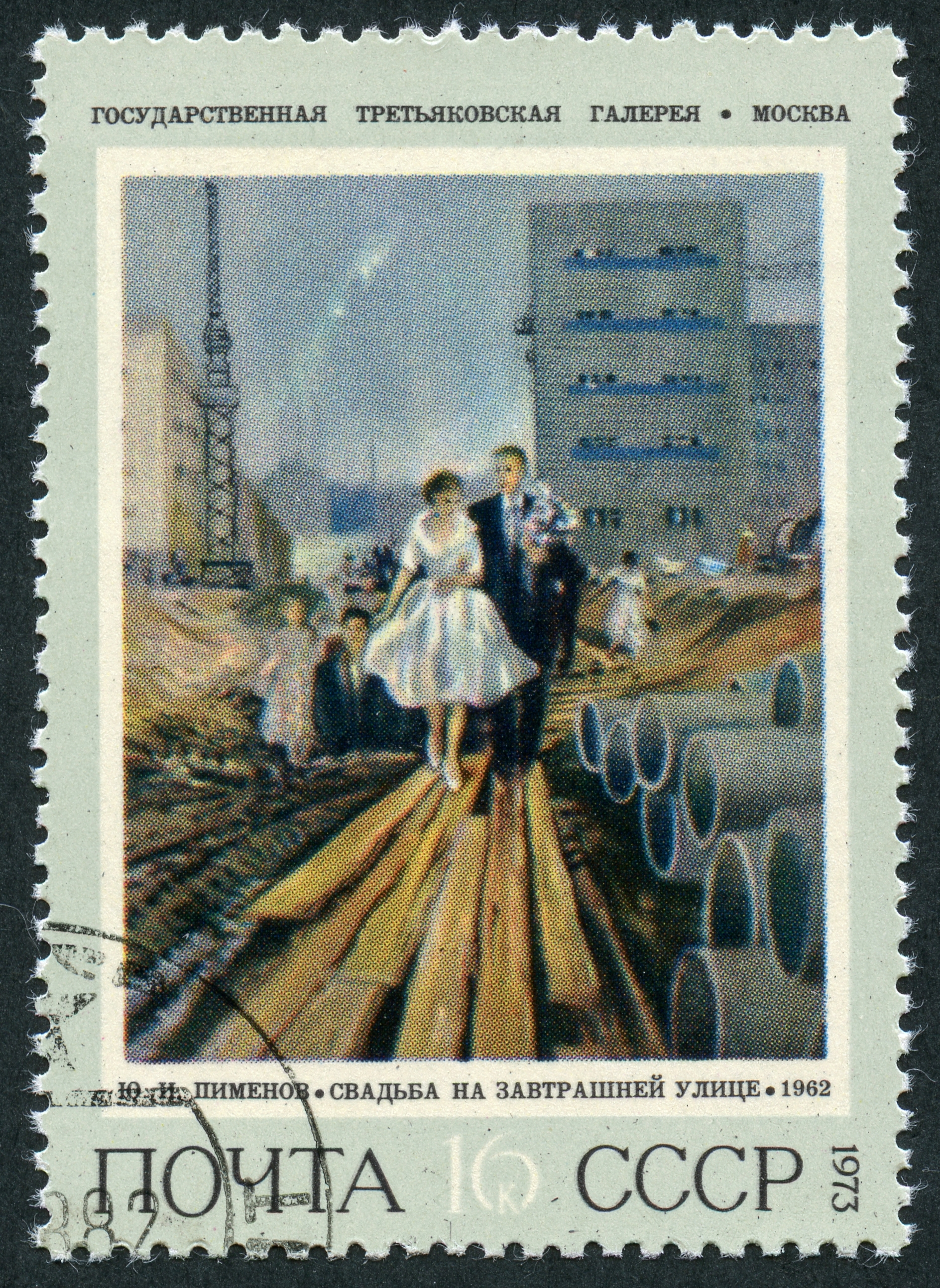 A USSR stamp